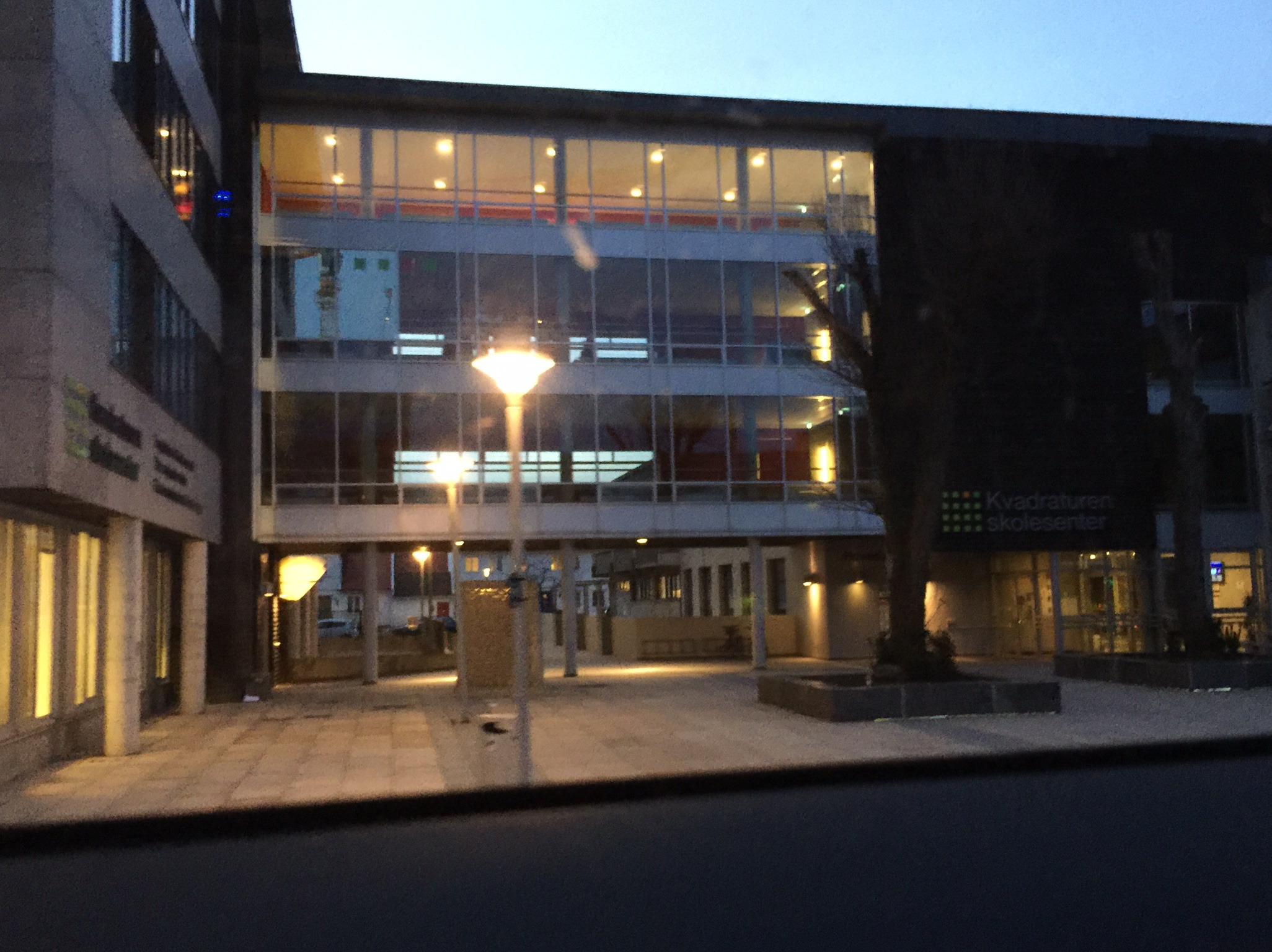 Kvadraturen skolesenter in Kristiansand